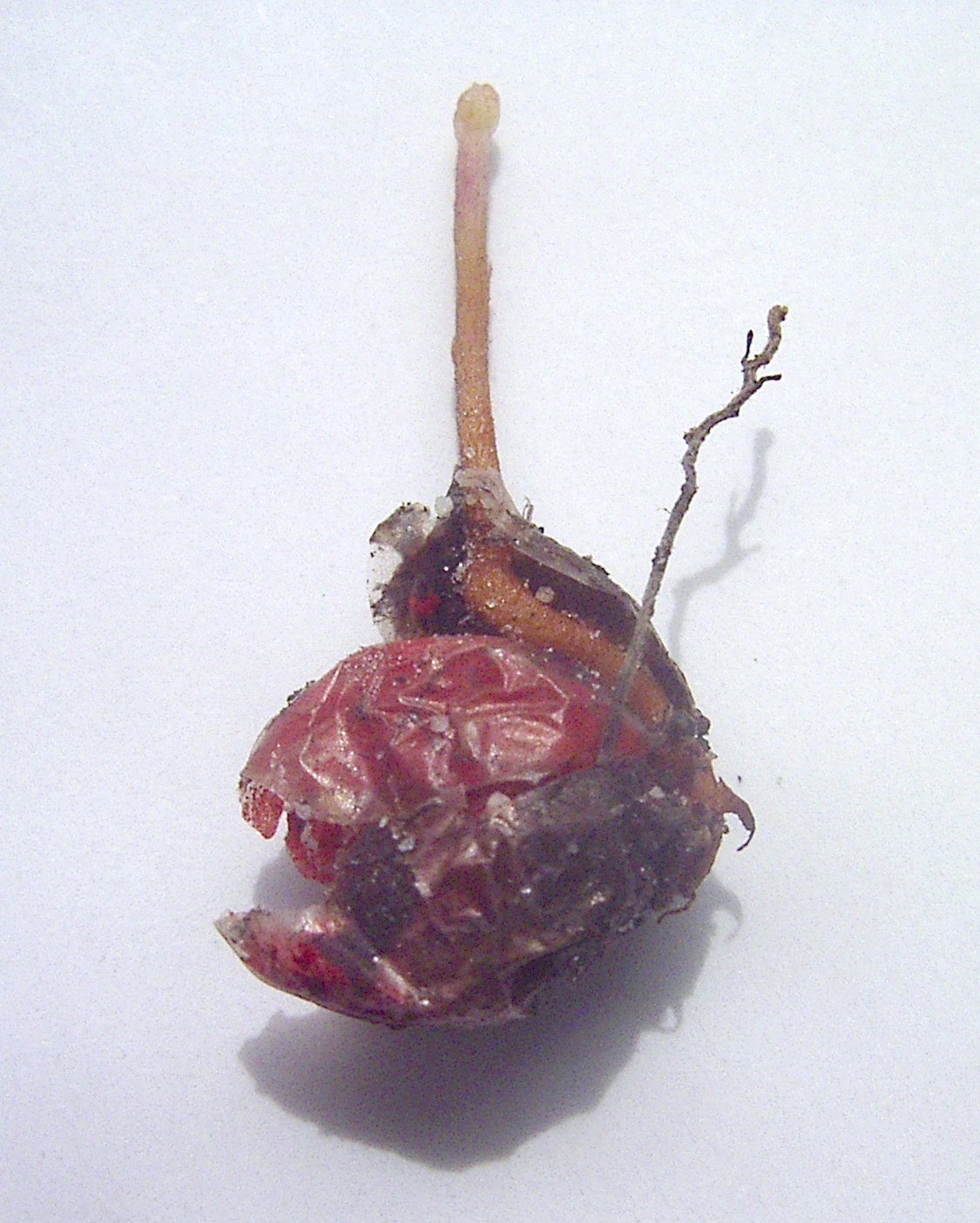 Drosera zonaria tuber Author: Denis Barthel